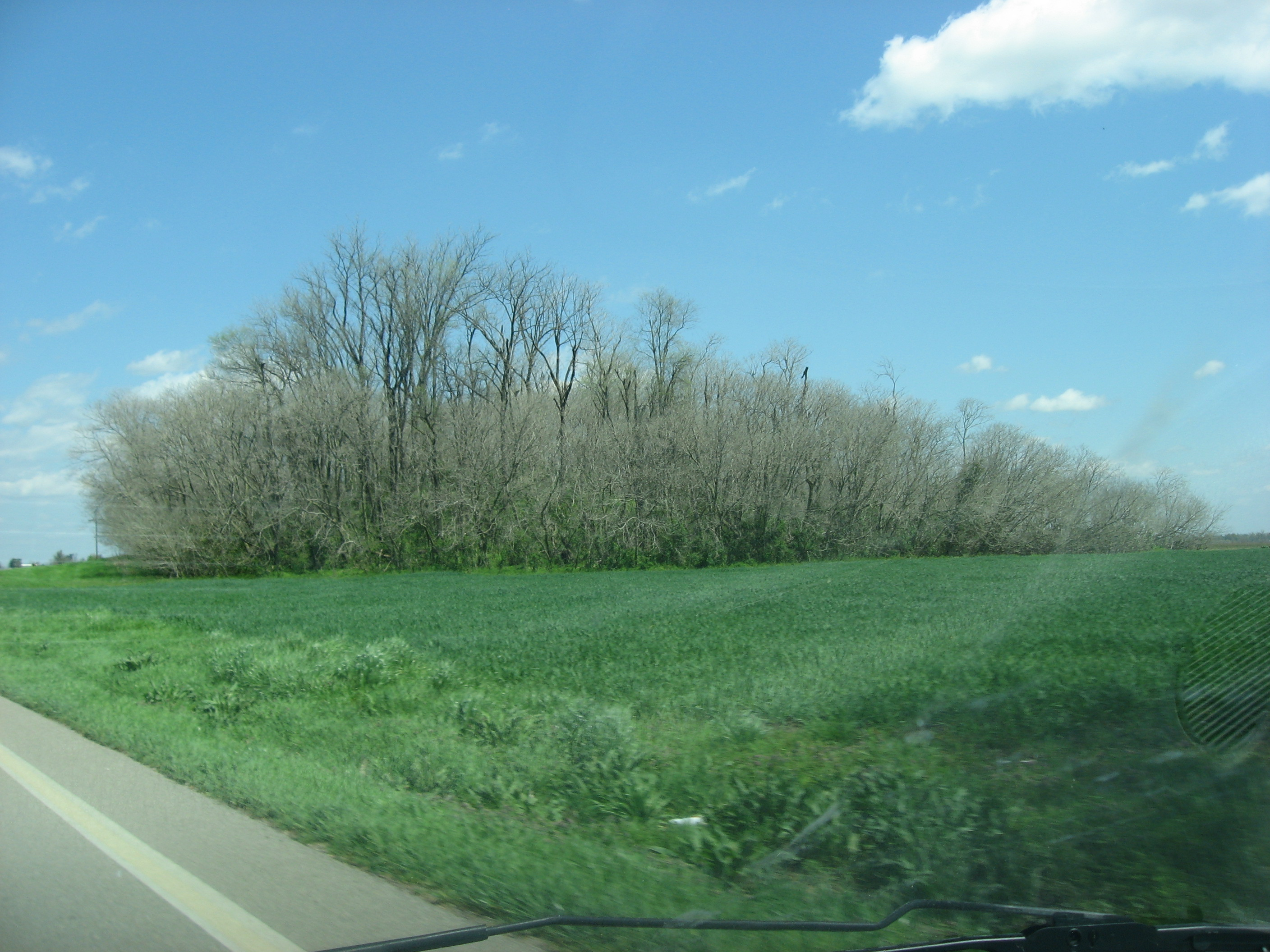 Windshield view of the Murphy Mound Archeological Site, located along Route D southwest of Caruthersville in Little Prairie Township, Pemiscot County, Missouri, United States. Built by Mississippian peoples, it is listed on the National Register of Historic Places.